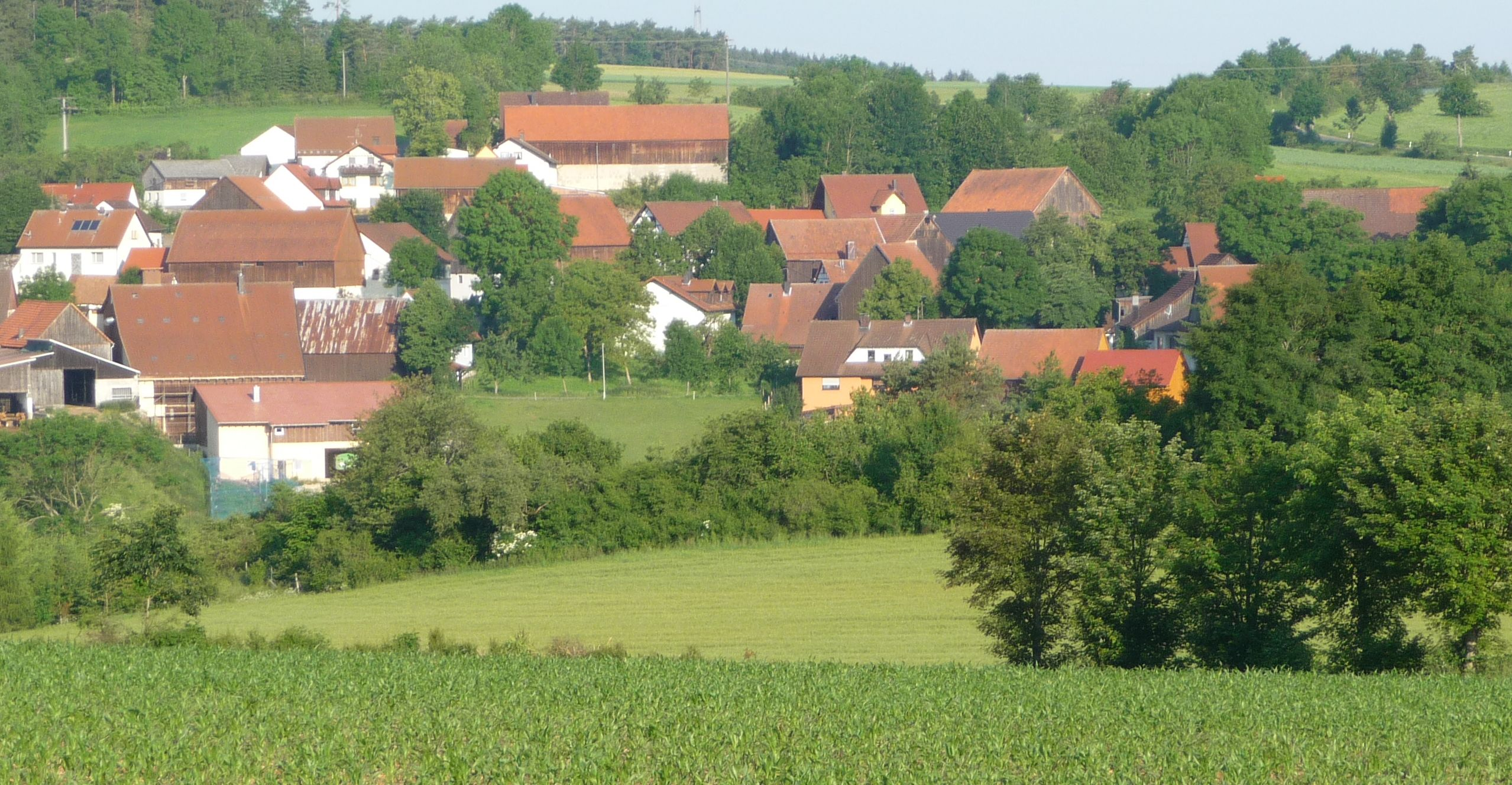 Laibarös